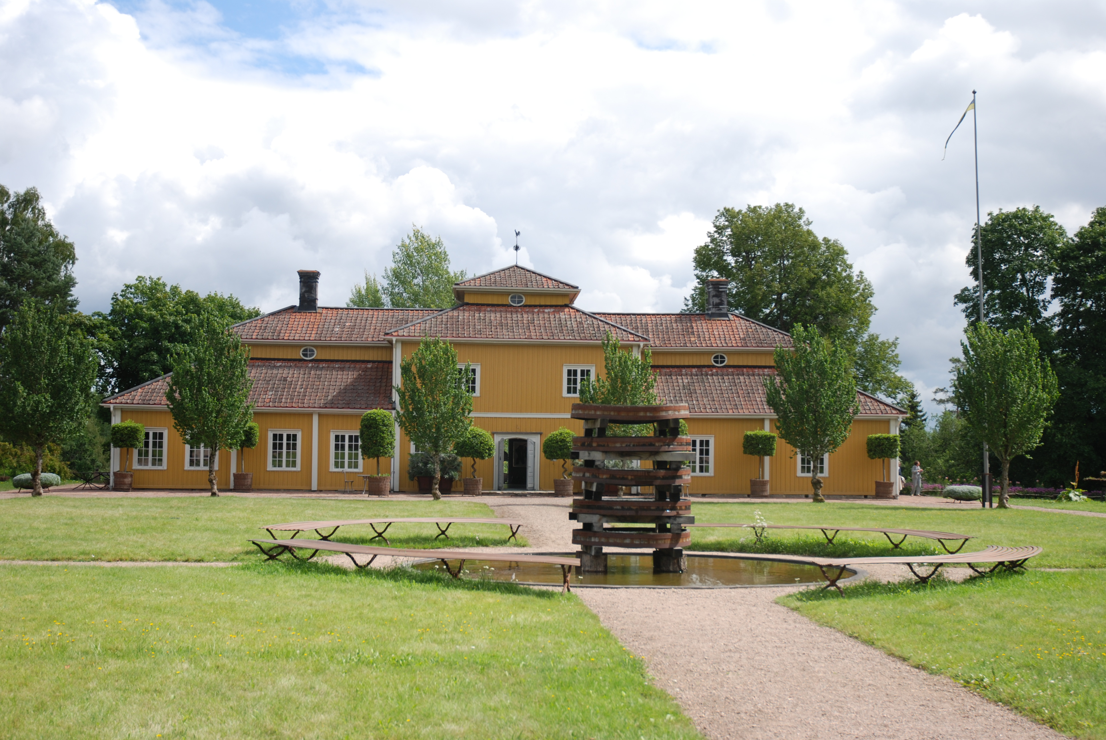 Gunillaberg